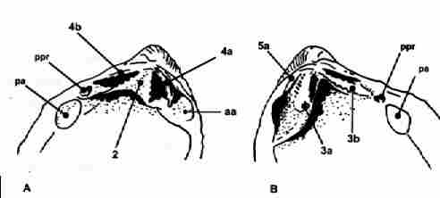 Internal view of trigoniid hinge (Author's image)